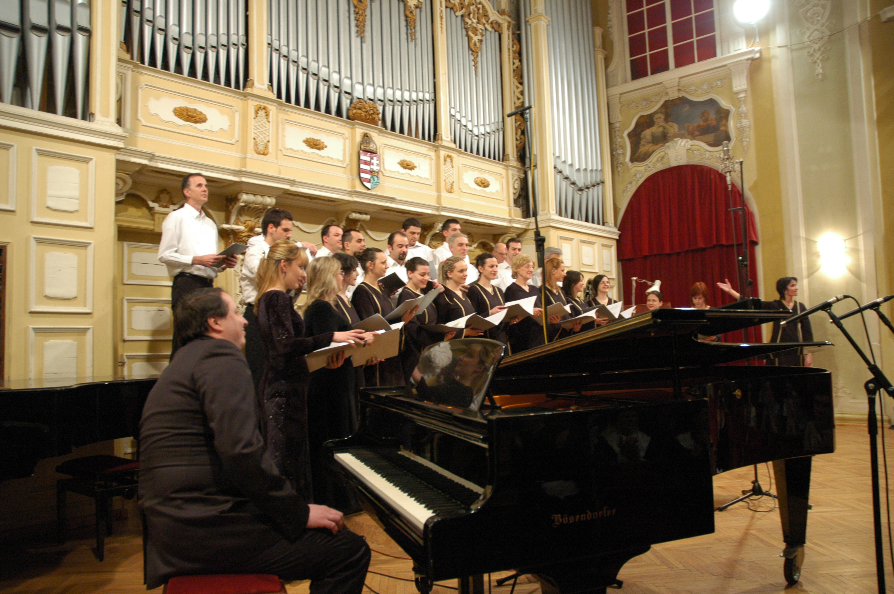 Oktoih u Miškolcu